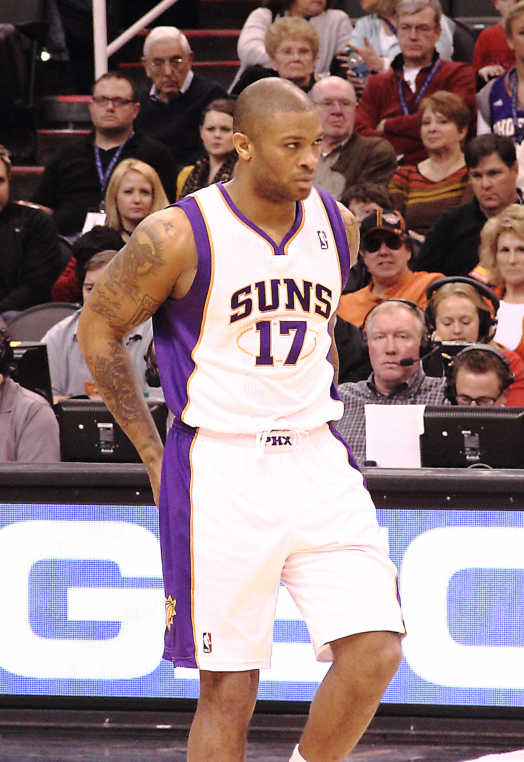 P.J. Tucker, 12/23/12